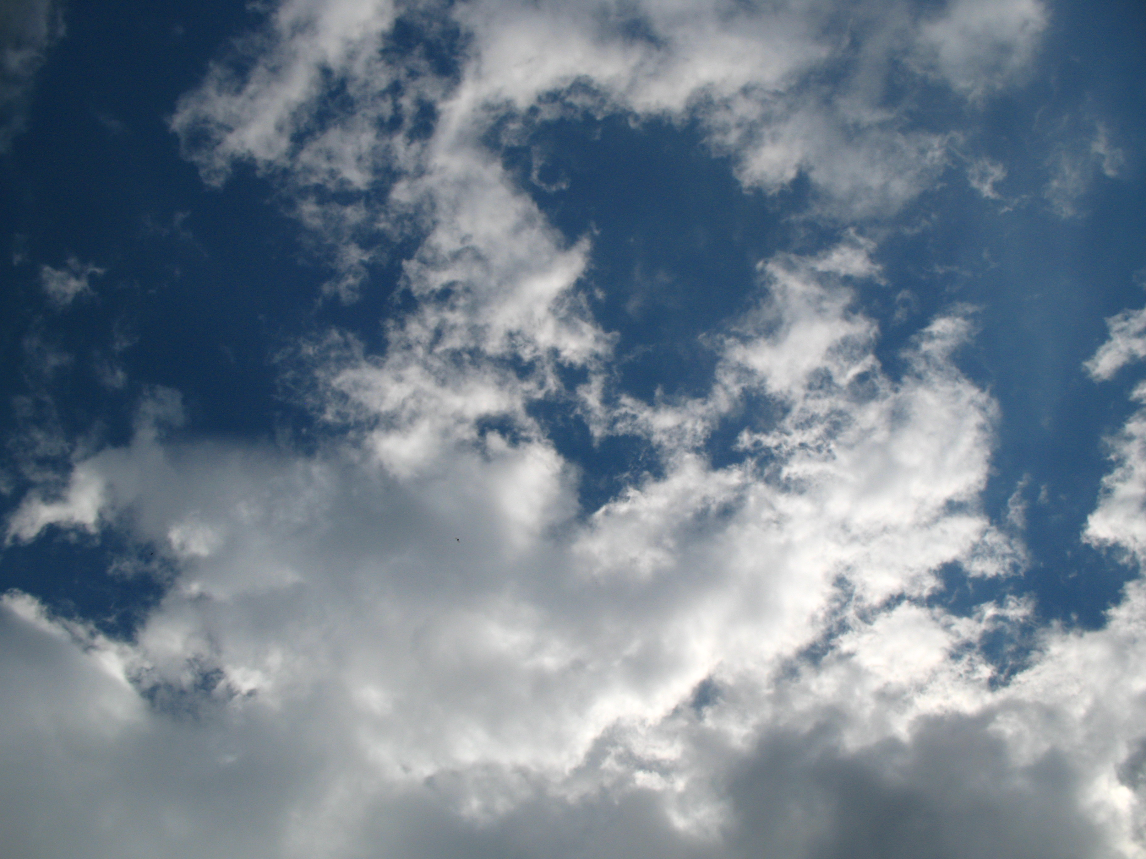 The sky above the Trift cable car lower station, Gadmen, Switzerland